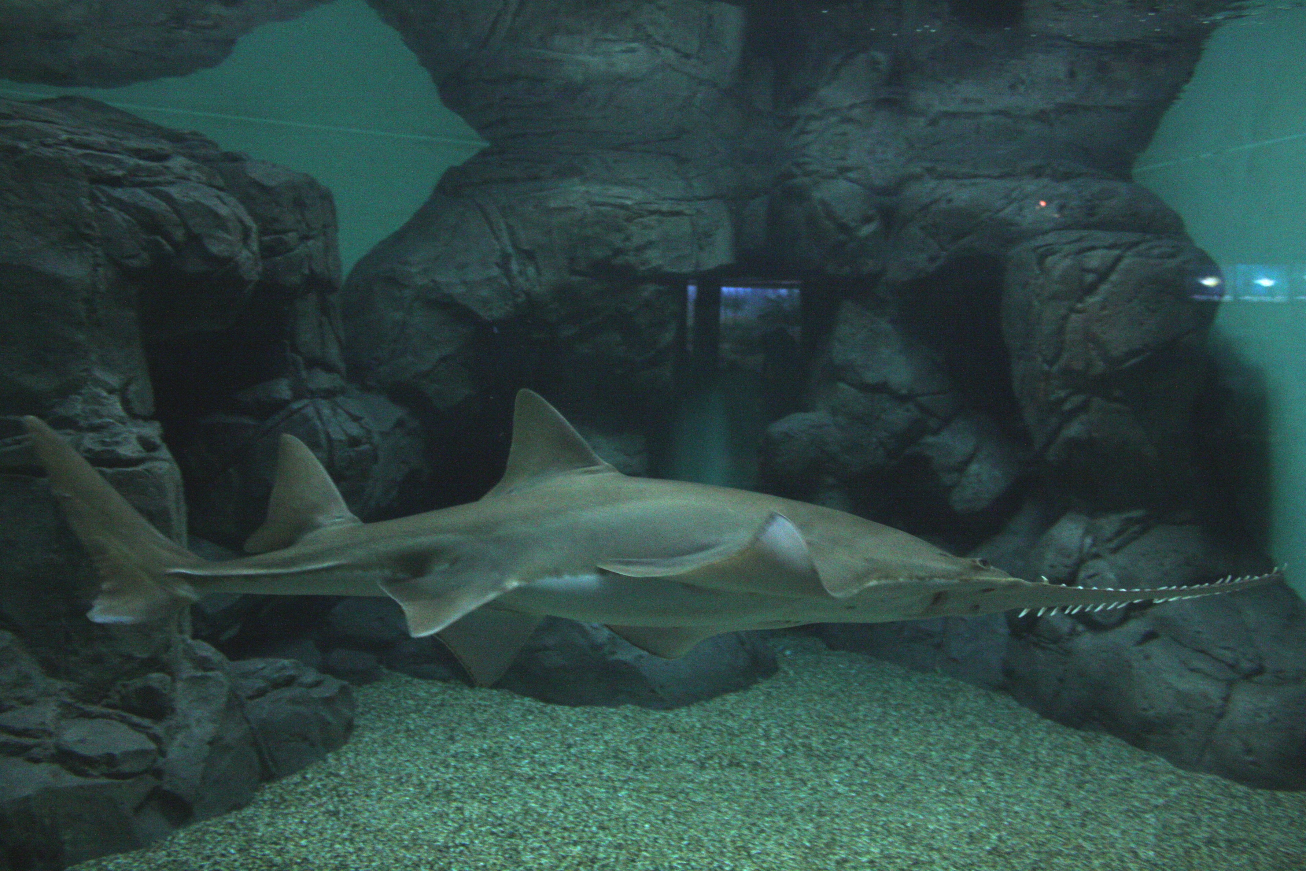 Pristis microdon in Shanghai Aquarium